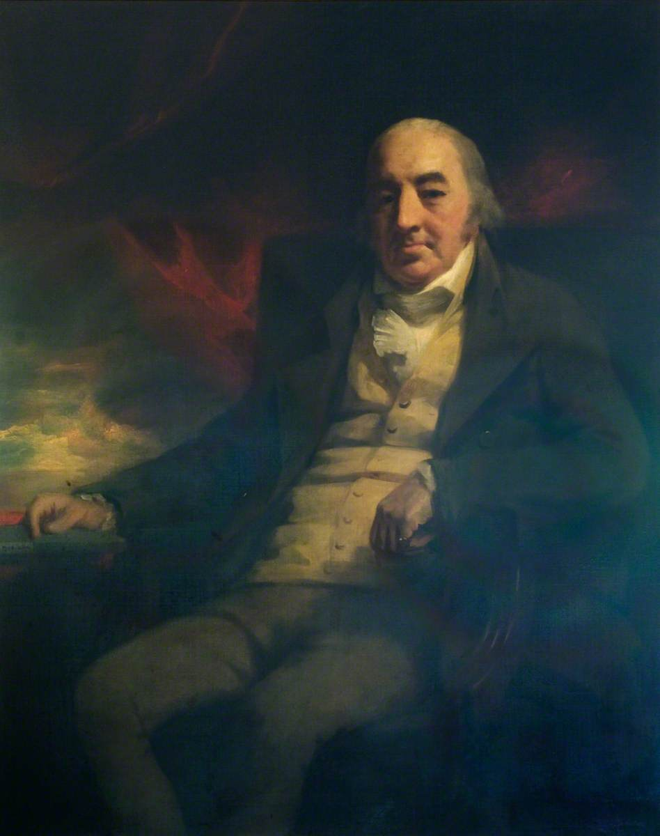 John Francis Erskine, 7th Earl of Mar (1741-1825), three-quarter length, in a green coat & trousers, a yellow waistcoat, a white cravat, seated in an armchair, his right hand resting on a table with a book.